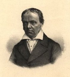 Martin Ohm